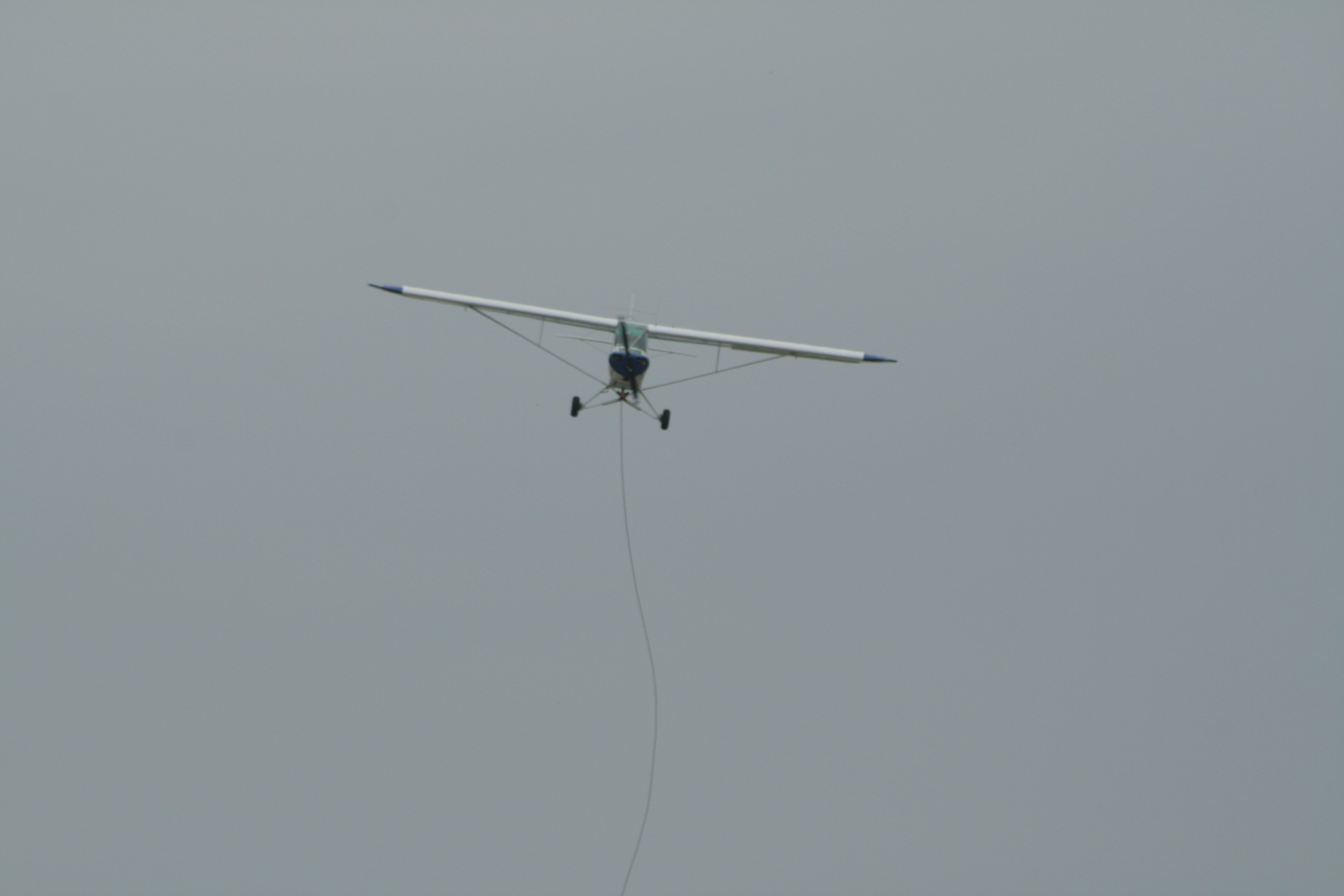 A Piper Pa 18, which is going to land with the aerotowing-rope.